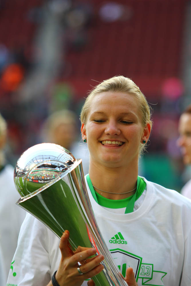 German football player Alexandra Popp, VfL Wolfsburg - after the German cup final 2013